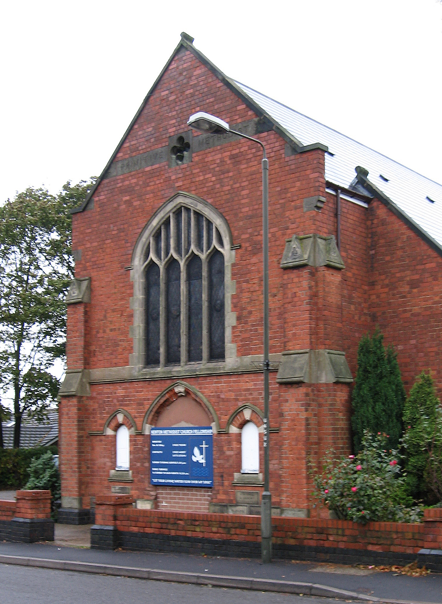 Newton - Methodist Chapel